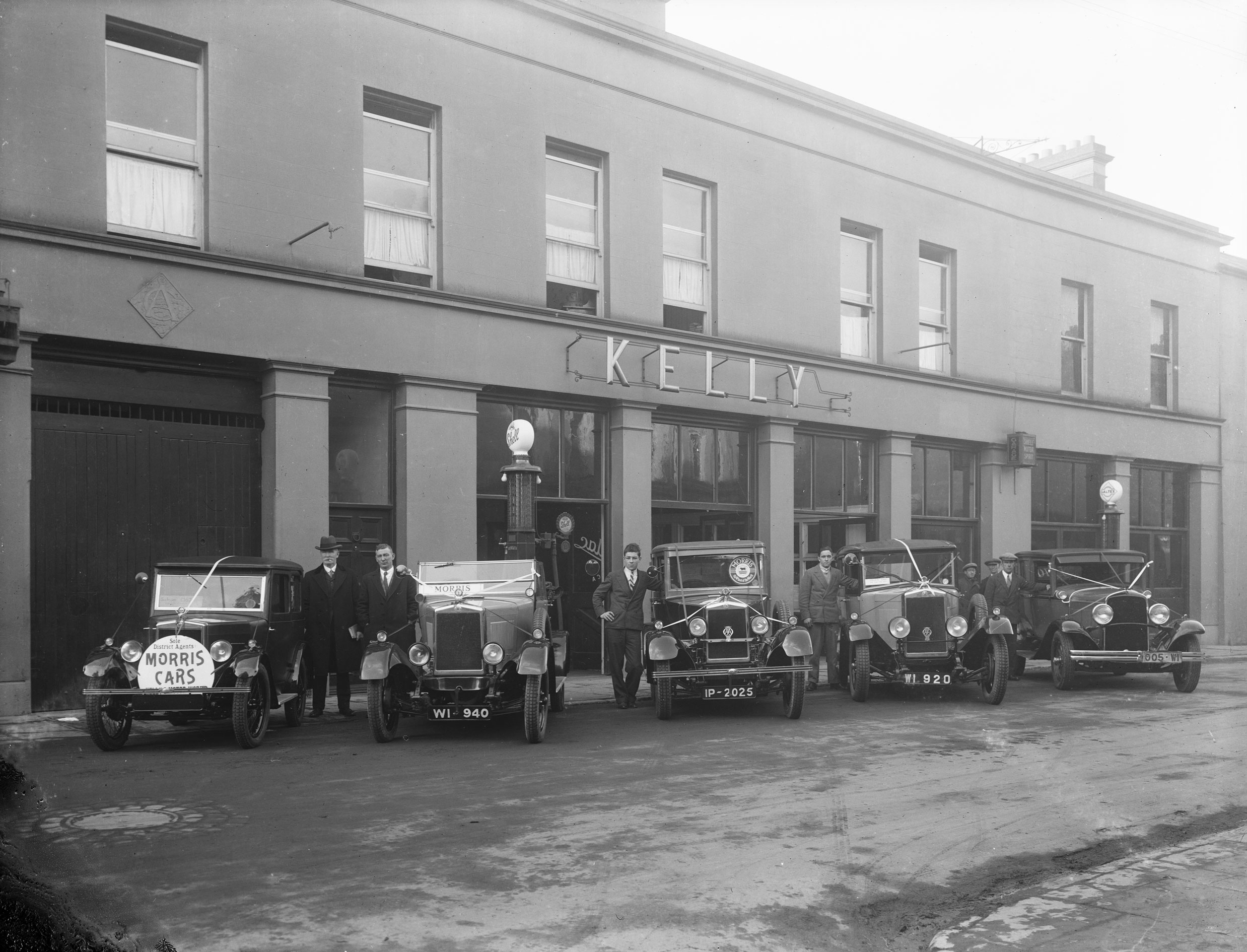 Proud array of Morris cars on the forecourt of Mr J. Kelly's garage at Catherine Street, Waterford, Ireland. Kelly's was the sole district agent for Morris cars. The car on extreme left has a sign in the window with a price tag of £167. Second from the right is a saloon model (reg. no. WI 920) for £460. With Triplex glass, it cost £479...